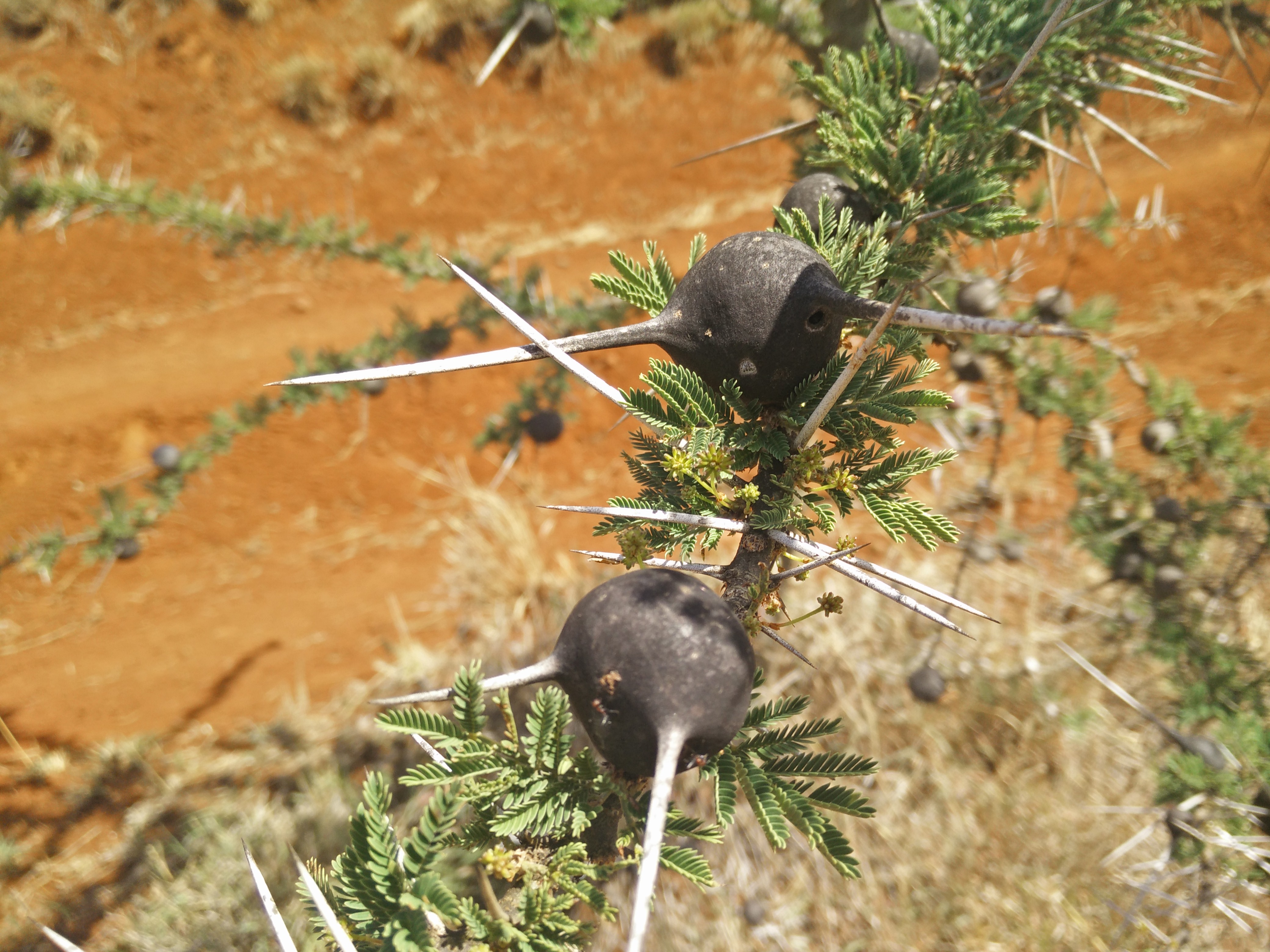 Vachellia drepanolobium aka Whistling Thorn at Simba Farm on the western slopes of Mount Kilimanjaro. Photo taken January 2017.